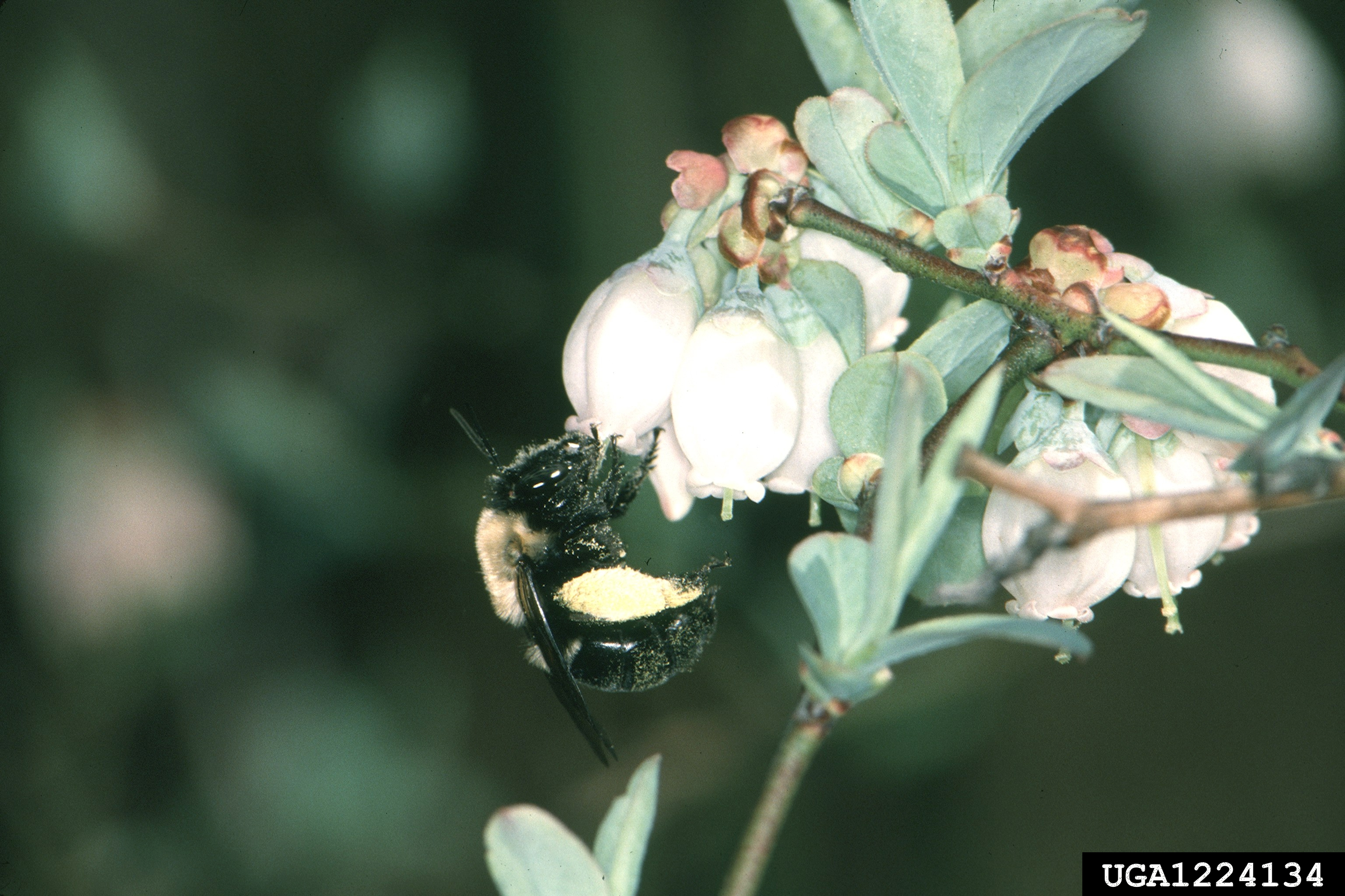 Habropoda laboriosa female